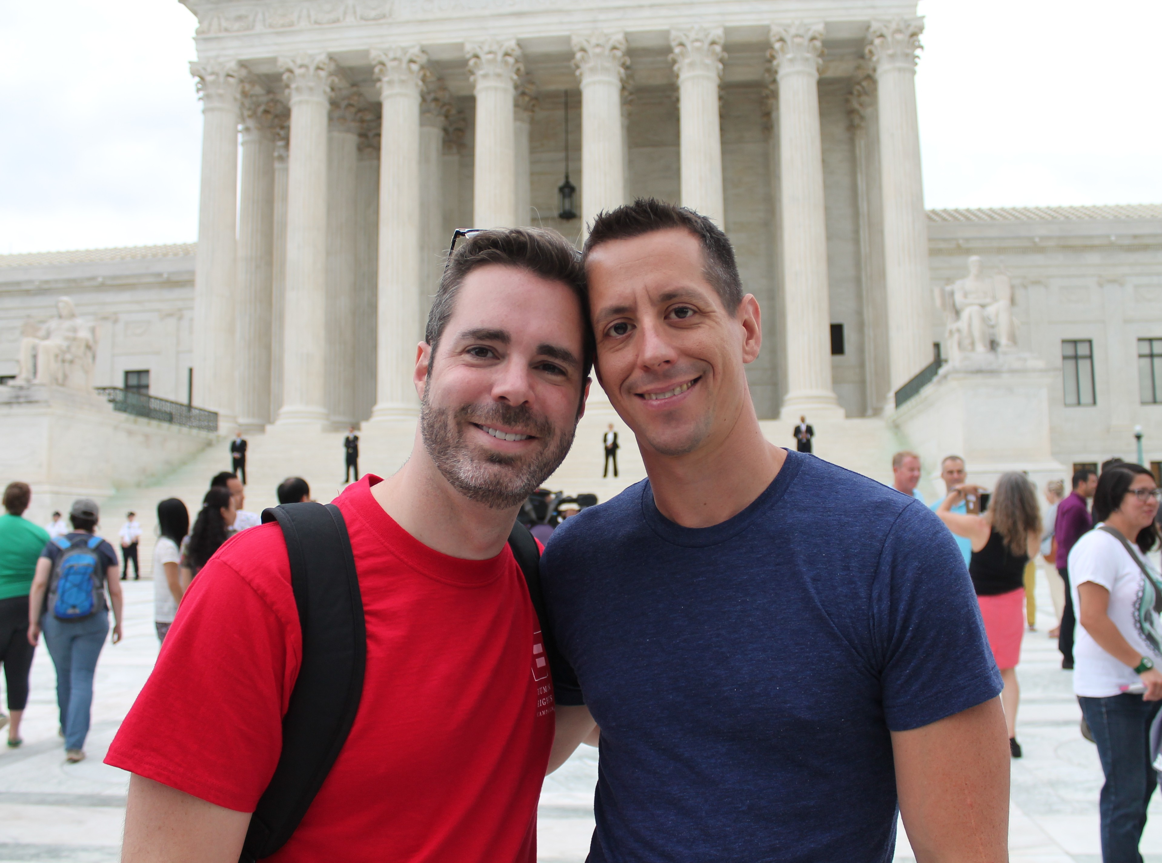 MARRIAGE EQUALITY DECISION DAY RALLY in front of the US Supreme Court on First Street between East Capitol Street and Maryland Avenue, NE, Washington DC on Friday morning, 26 June 2015 by Elvert Barnes Protest Photography Marriage Equality / USA Learn more about the SCOTUS Obergefell v. Hodges case on Wikipedia at Visit Elvert Barnes MARRIAGE EQUALITY same-sex civil unions ongoing project at